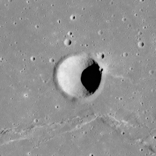 Bobillier, Mare Serenitatis, the moon. Taken from an altitude of approximately 107 km on Revolution 38 of the Apollo 17 mission. Sun angle is about 23 deg.